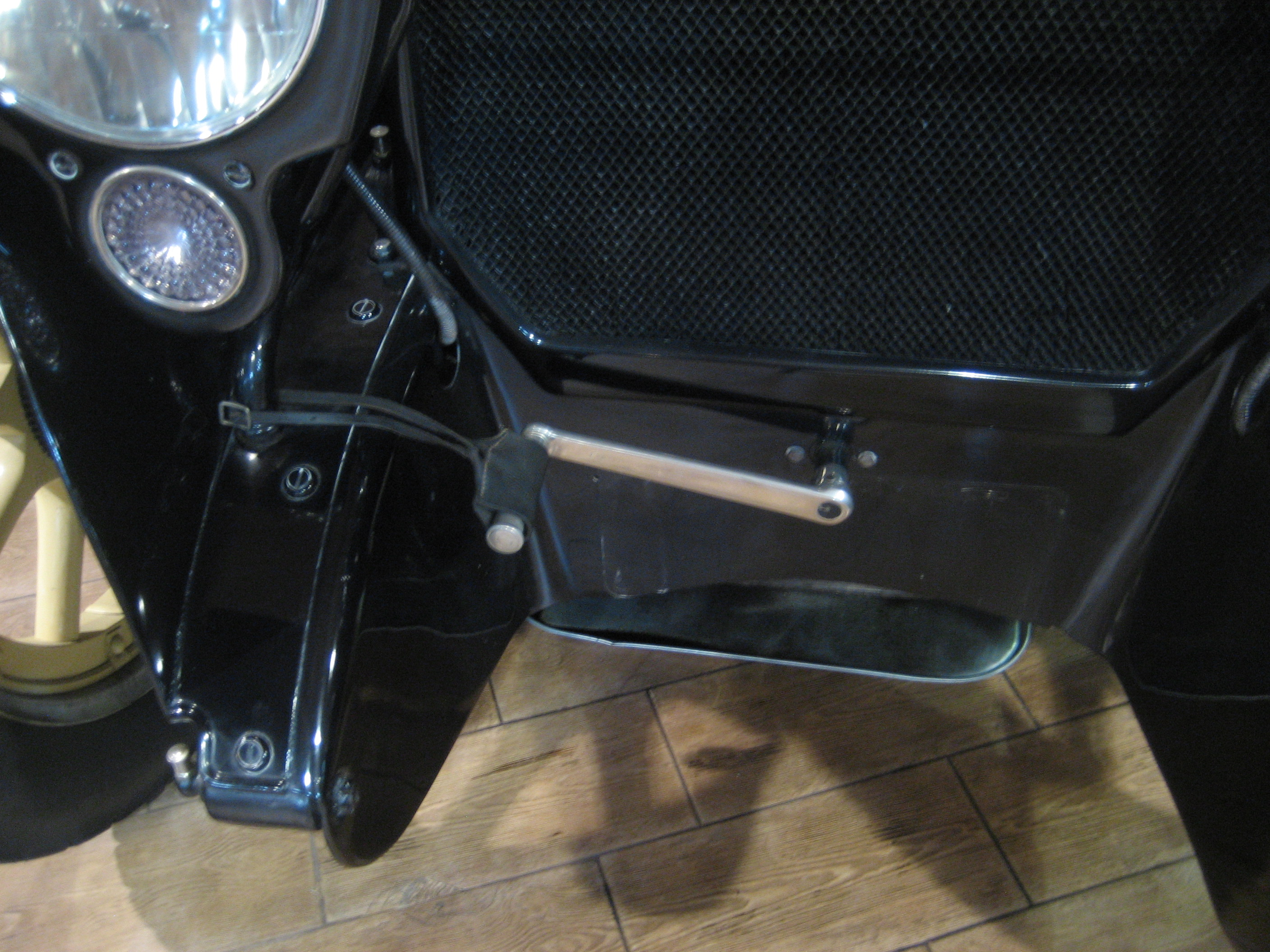 1917 Packard Twin Six Model 2-25 Convertible Coupe Detail showing starter crank and crank holder Fort Lauderdale Antique Car Museum.